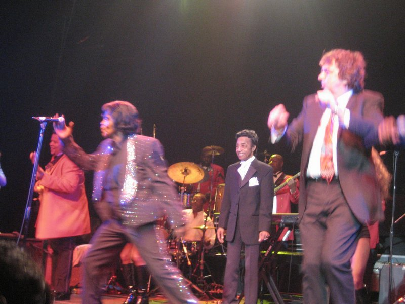 James Brown (2005)